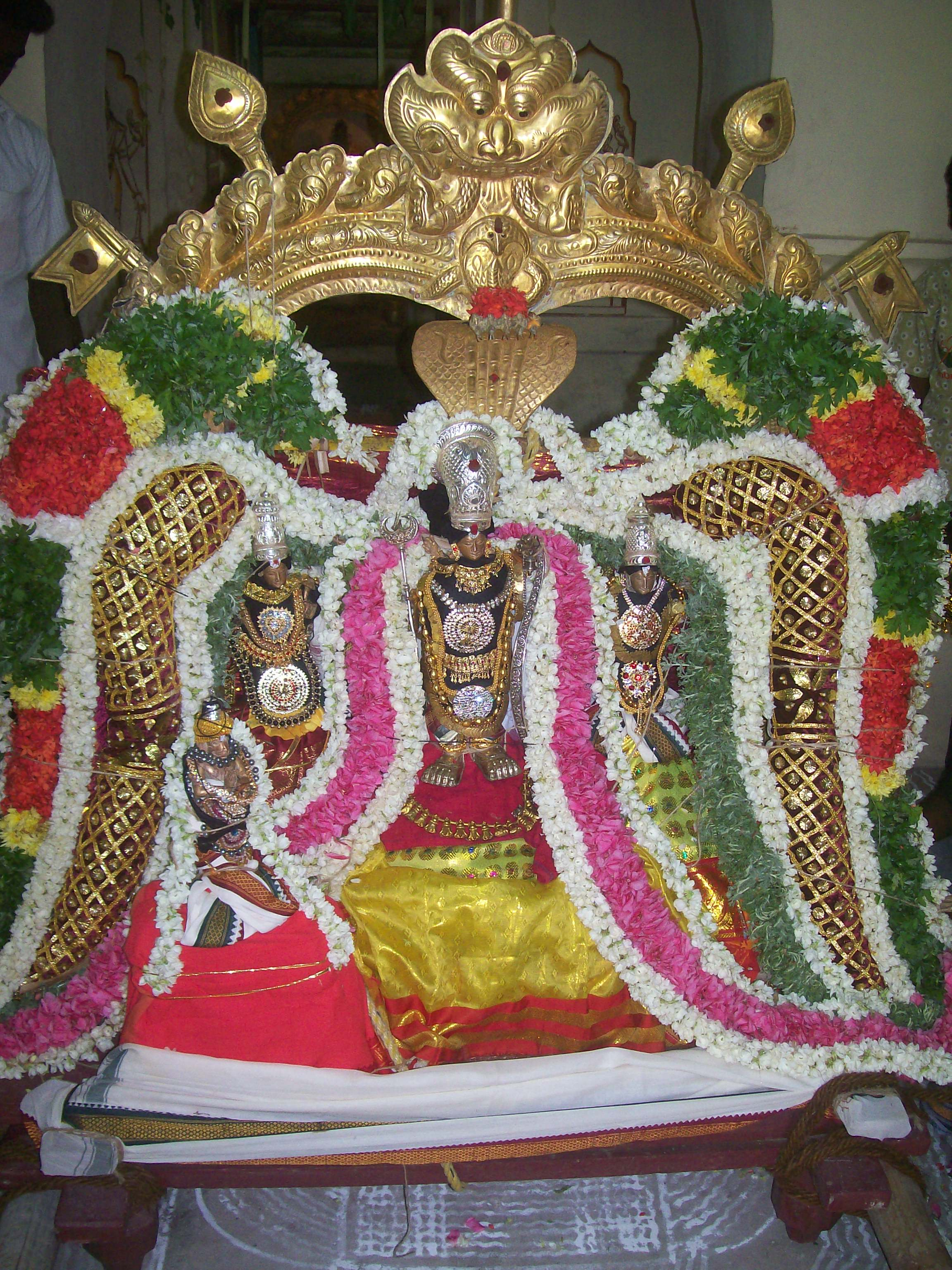 Kumbakonam Solaiappan St Caverikarai Ramar